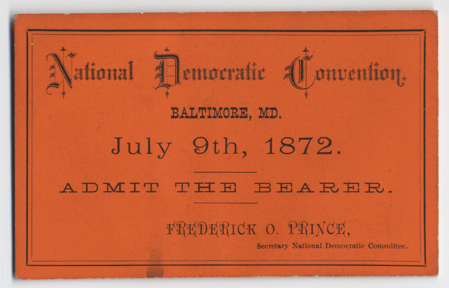 Collection: Cornell University Collection of Political Americana, Cornell University Library Repository: Susan H. Douglas Political Americana Collection, #2214 Rare & Manuscript Collections, Cornell University Library, Cornell University Title: 1872 National Democratic Convention Admission Ticket Political Party: Democratic Election Year: 1872 Date Made: 1872 Measurement: Ticket: 2 3/4 x 4 1/4 in.; 6.985 x 10.795 cm Classification: Ephemera Persistent URI: There are no known U.S. copyright restrictions on this image. The digital file is owned by the Cornell University Library which is making it freely available with the request that, when possible, the Library be credited as its source.